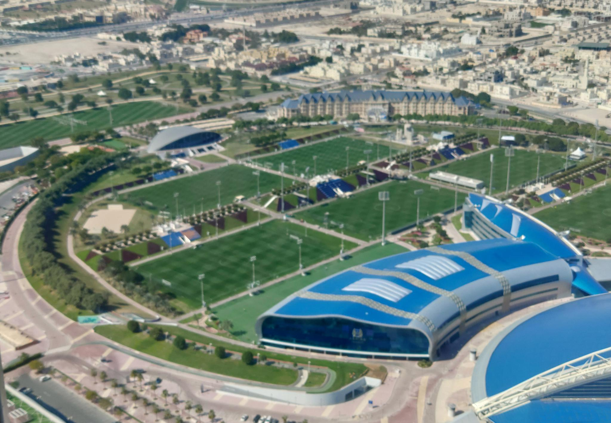 Aerial view of Aspire Academy and Al Aziziyah Boutique Hotel in the Baaya district of Al Rayyan, Qatar.